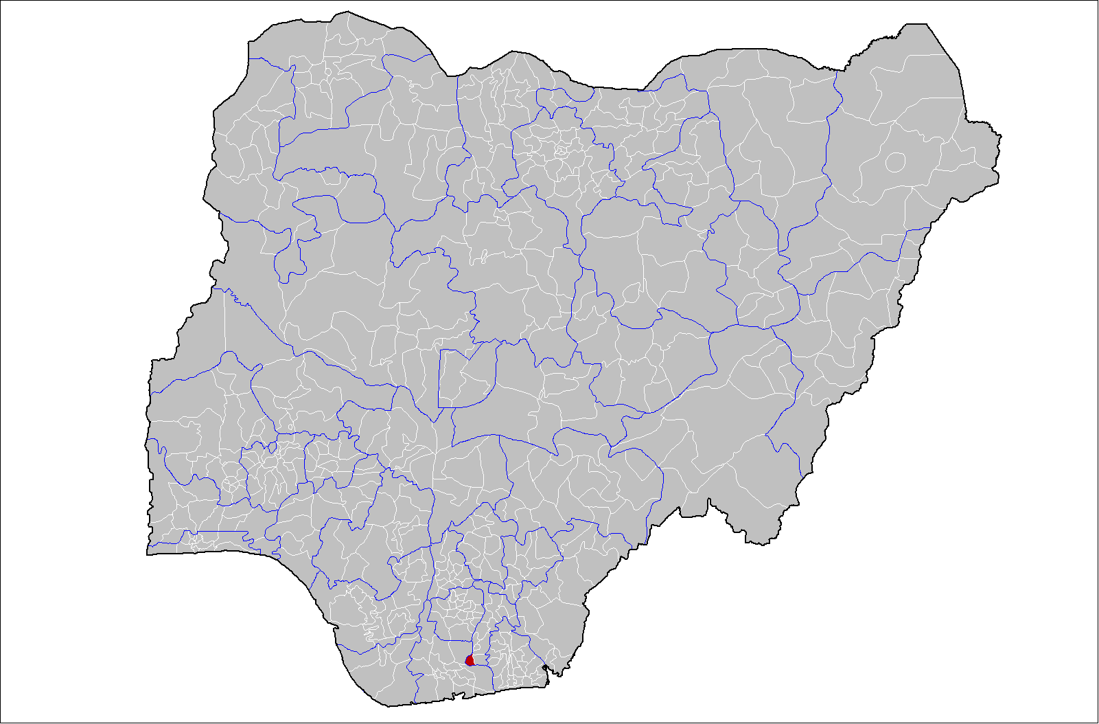 LGA locator map.